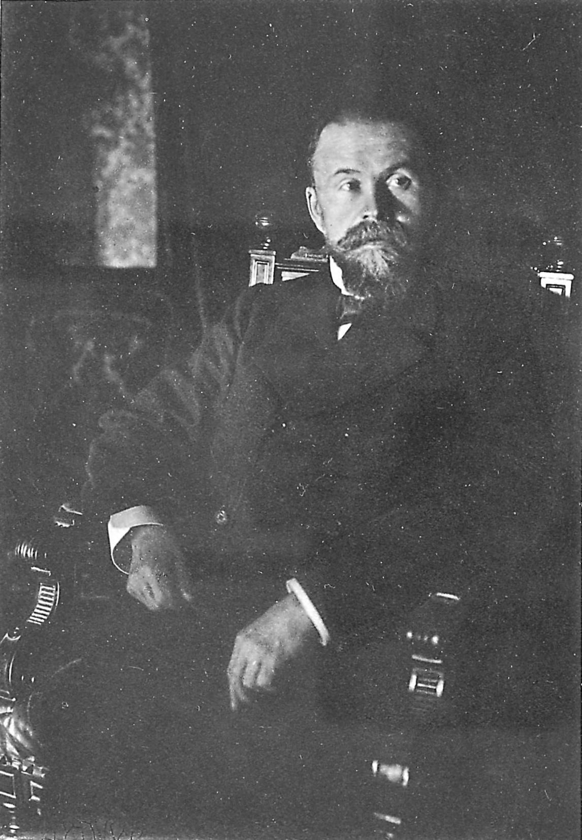 Carl Wernicke